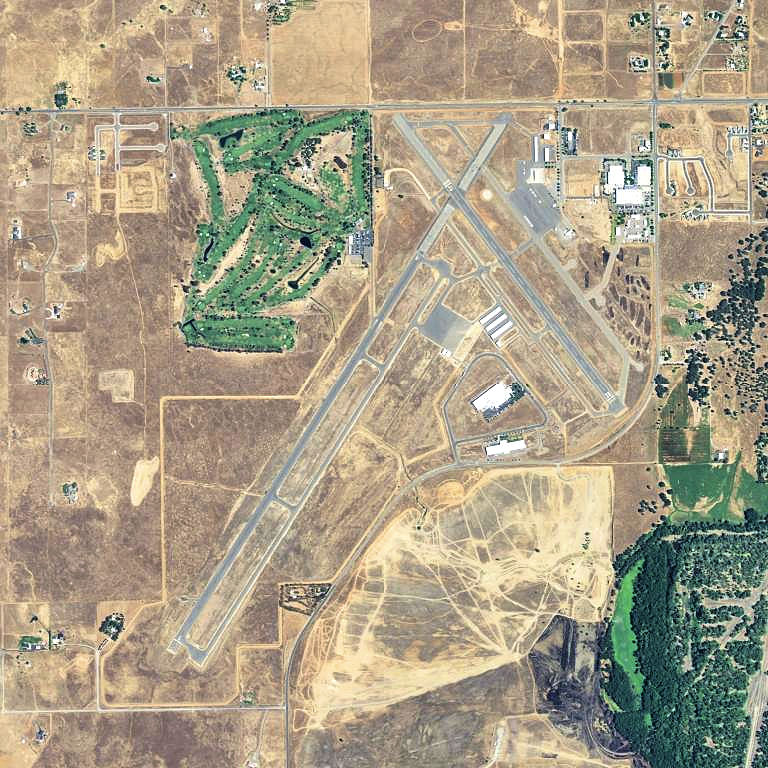 USGS digital orthophoto of Oroville Municipal Airport in California